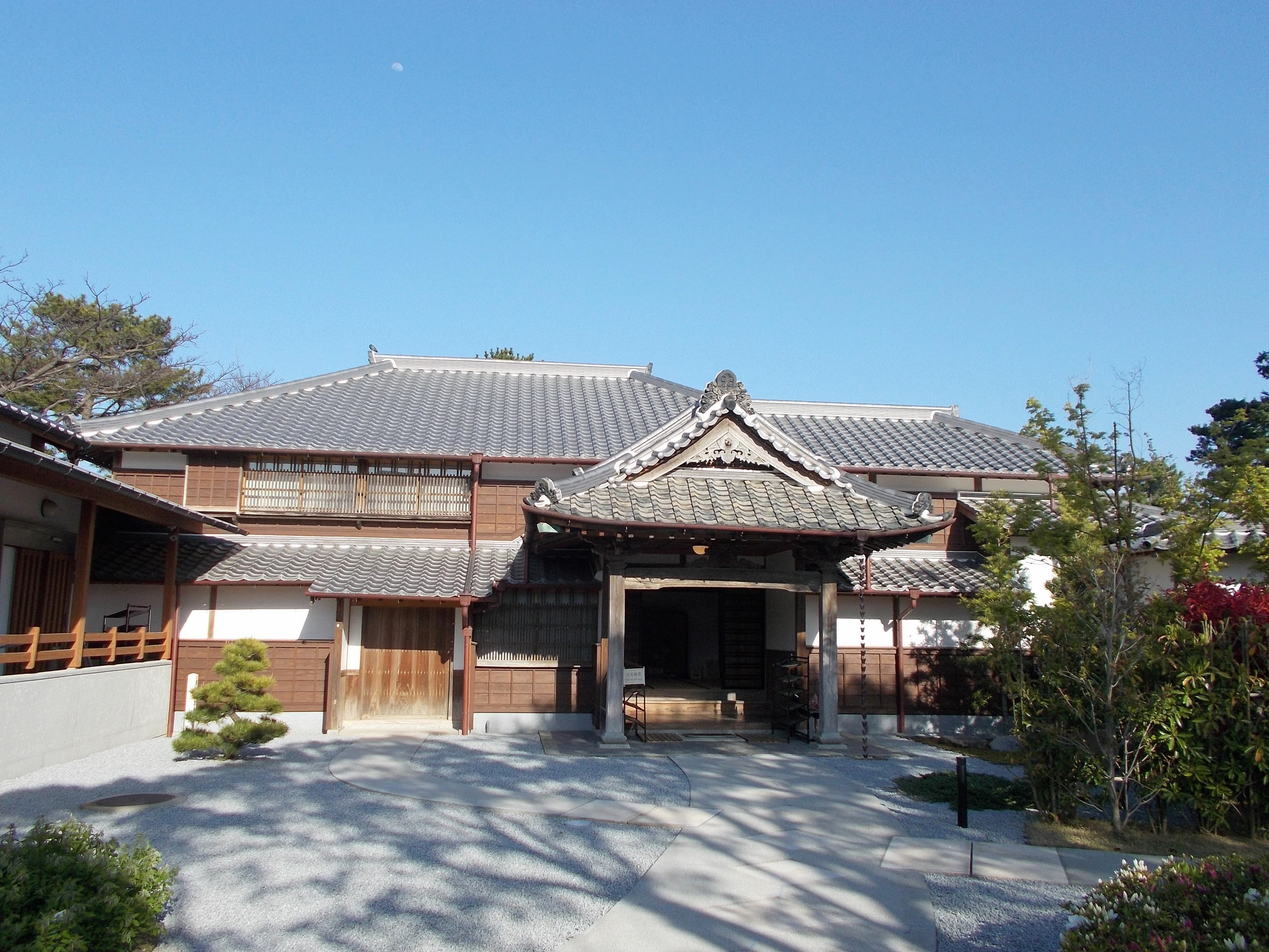 Kyu Oshima-tei is a house in Karatsu, Saga, Japan. It was built a residence of Oshima Kotaro, the founder and head of the Karatsu Bank. The existing main house is believed to be completed in the mid-Meiji period around 1893.